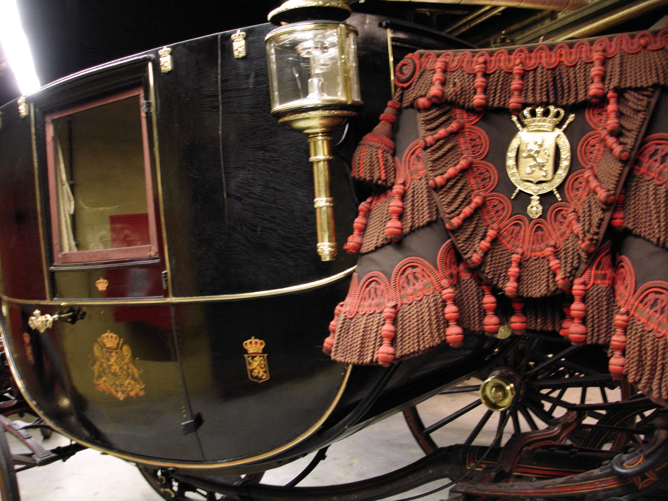 own work, royal Berline Of Leopold II